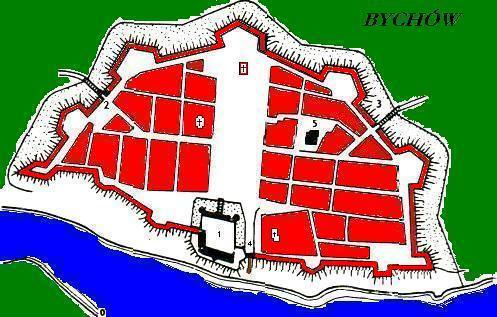 Bykhaw castle